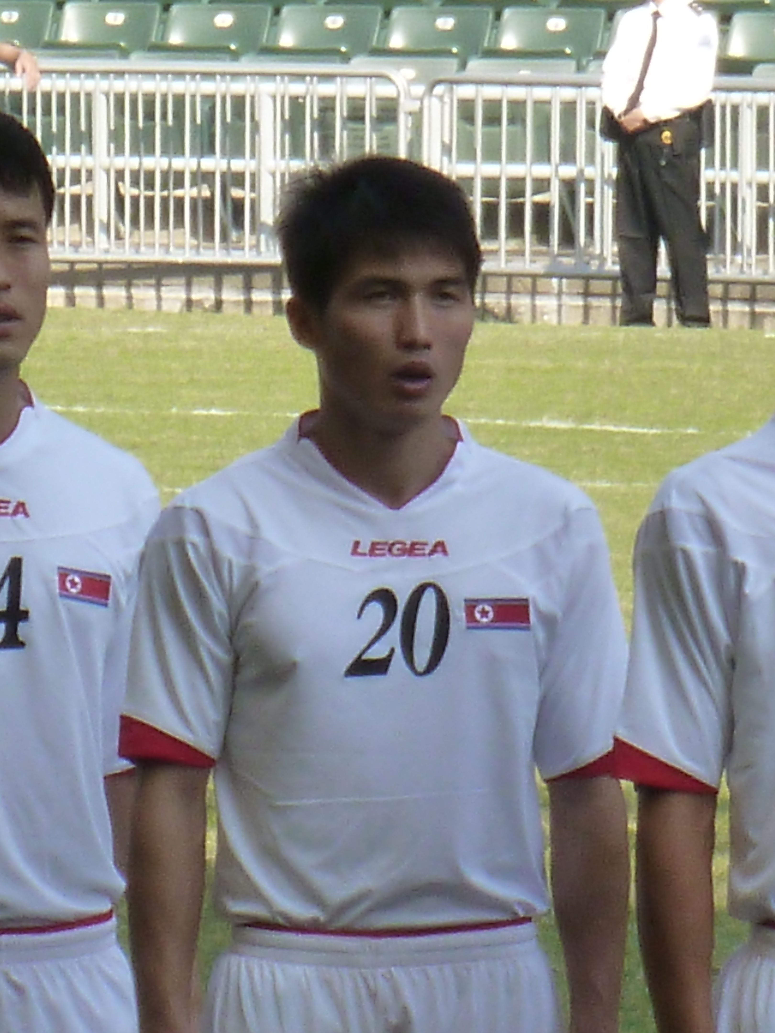 Ri Kwang-Hyok (9 Dec 2012, EAFF East Asian Cup 2013 Preliminary Competition Round 2, Hong Kong vs DPR Korea, Hong Kong Stadium) 中文（香港）: 李光榮 (9 Dec 2012, 2013東亞盃外圍賽第二圈, 香港 vs 朝鮮, 香港大球場)